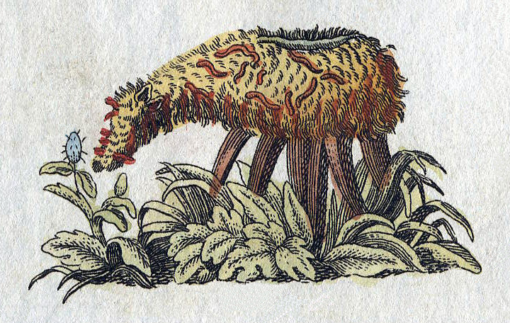 The Vegatable Lamb of Tartary